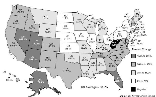 Population Change 1960-2000 by state PD map by US Census Bureau, scanned